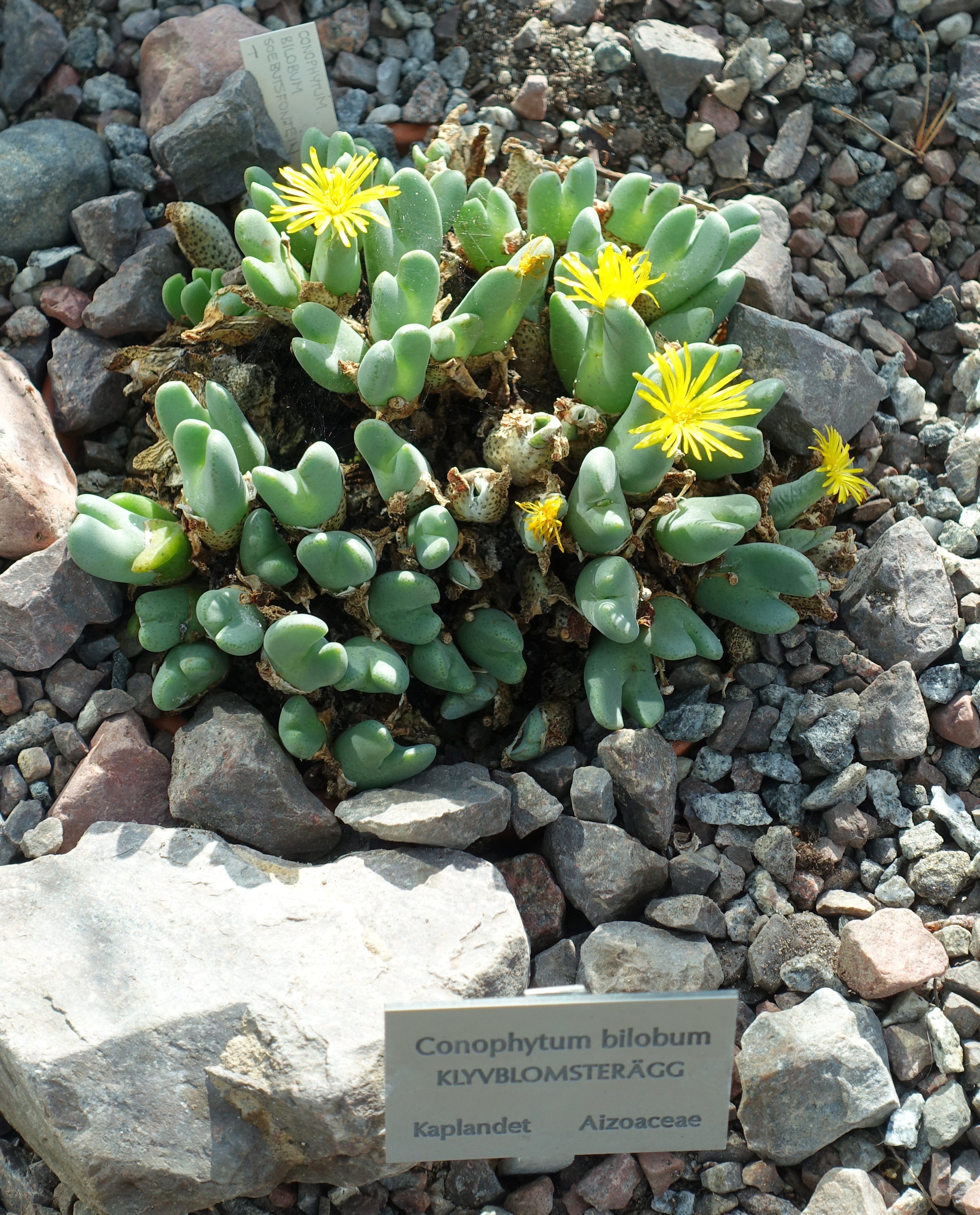 Botanical specimen in the Bergianska trädgården - Stockholm, Sweden.